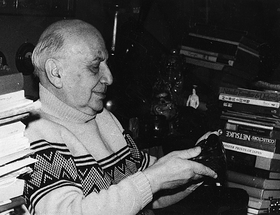 Sergei Petrovich varshavsky, Soviet (Russian) writer and collector at his working room in Leningrad